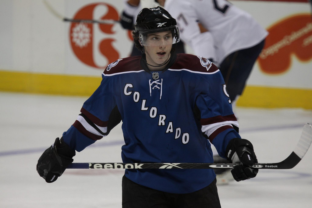 Edmonton Oilers at Colorado Avalanche, 2/6/10 @ Pepsi Center, Denver CO USA